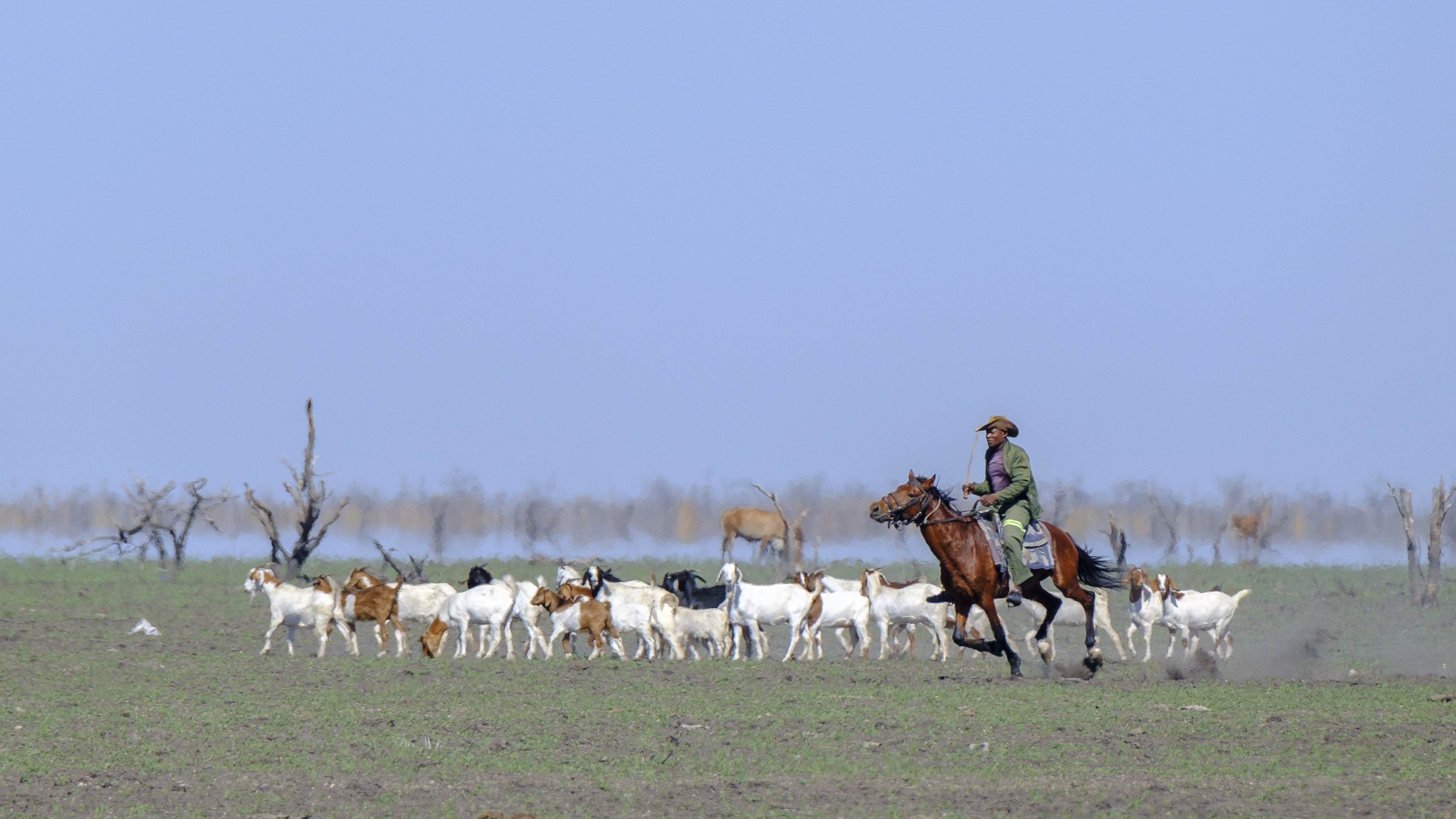 In the dry season, shepherds go with their goats to nutritious grasslands. This is an image with the theme "Africa on the Move or Transport" from: Botswana